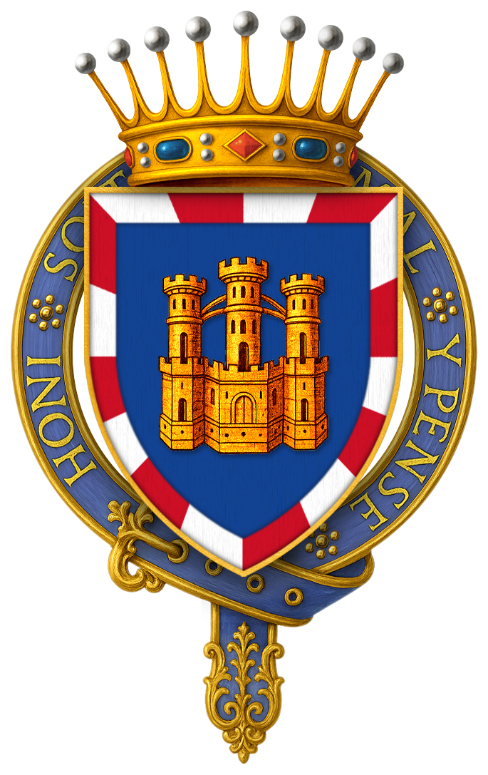 Inigo d'Avalos, Count of Monteodorisio, KG